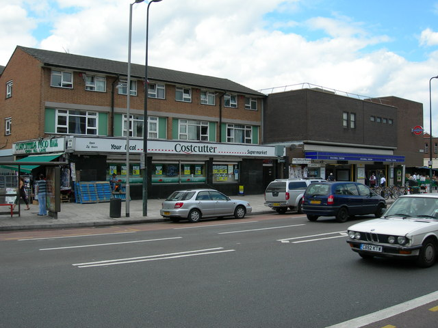 Stockwell Station. Looking across Clapham Road SW9. Between the supermarket and the station is a memorial to Jean Charles de Menezes, a man who was shot dead by police who mistakenly believed he was a terrorist. The incident took place on the station platform. Here is a view of the memorial